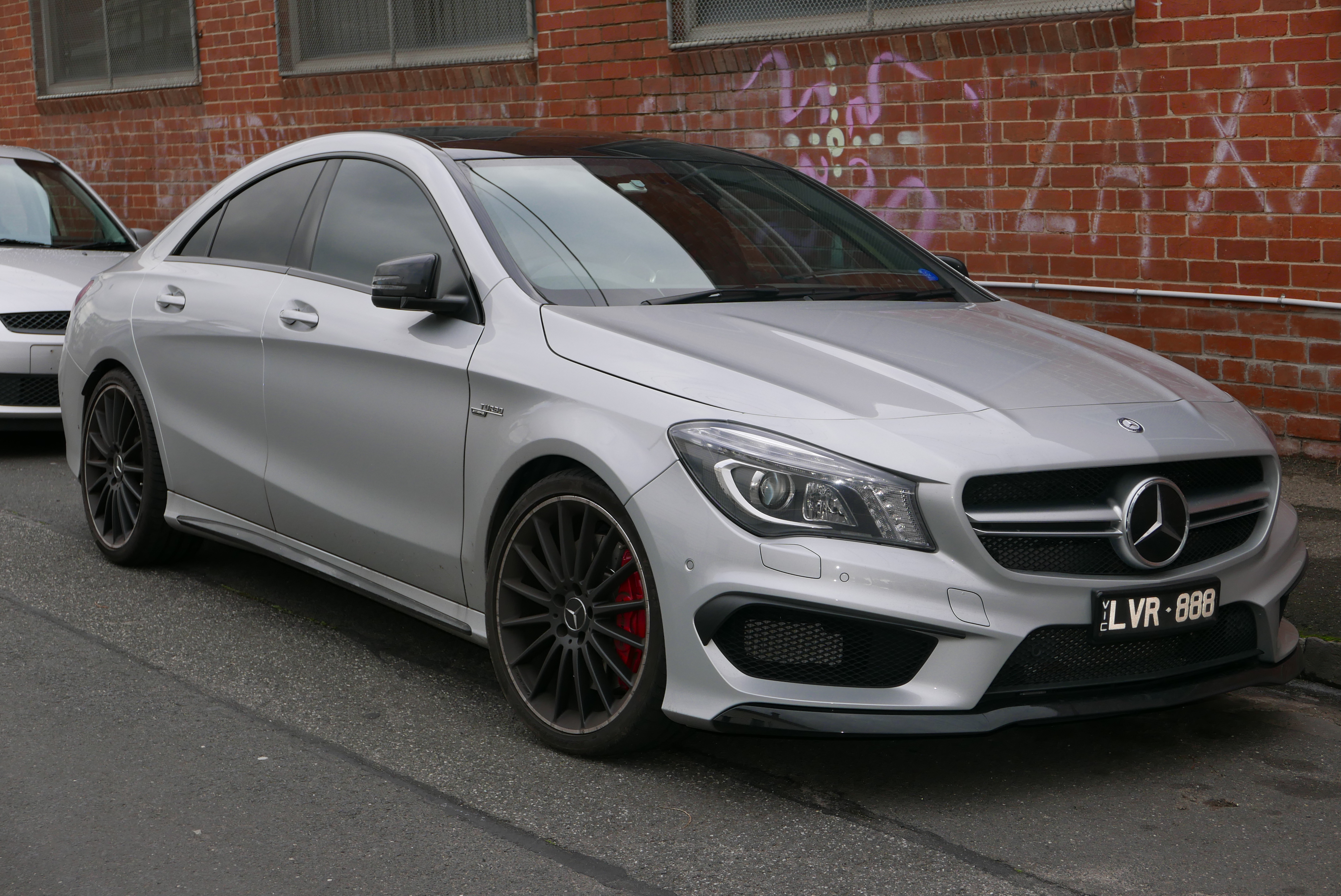 2014 Mercedes-Benz CLA 45 AMG (C 117) 4MATIC sedan. Photographed in Brunswick, Victoria, Australia. Vehicle registration enquiry resultsJurisdictionVictoriaRegistrationLVR888Chassis codeWDD1173522N107762Engine code13398080015293Compliance date2014-08Year of manufacture2014